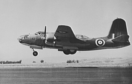 A Douglas DB-7 Boston of the Royal Air Force taking off for a test flight after delivery in the United States in January 1943.